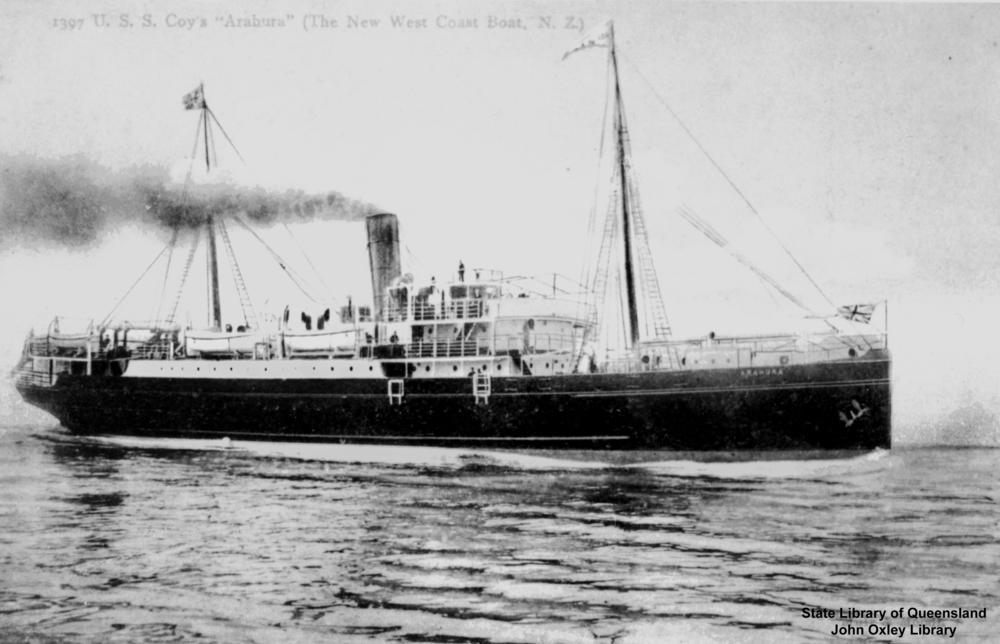 11,607 GRT passenger steamship Arahura